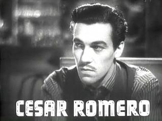 Cropped screenshot of Cesar Romero from the film Public Enemy's Wife